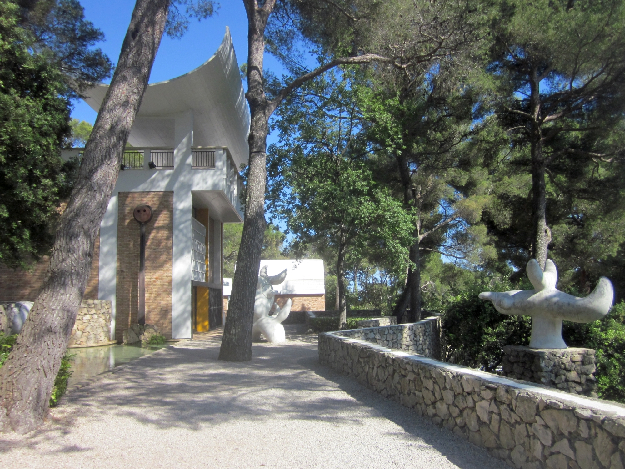 The Fondation Maeght building and grounds in Saint-Paul de Vence, France.